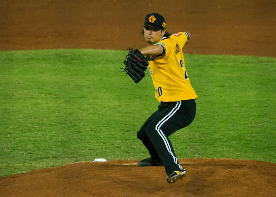 Giants sanada at a baseball game of Taoyuan of Taiwan in August 3, 2013.